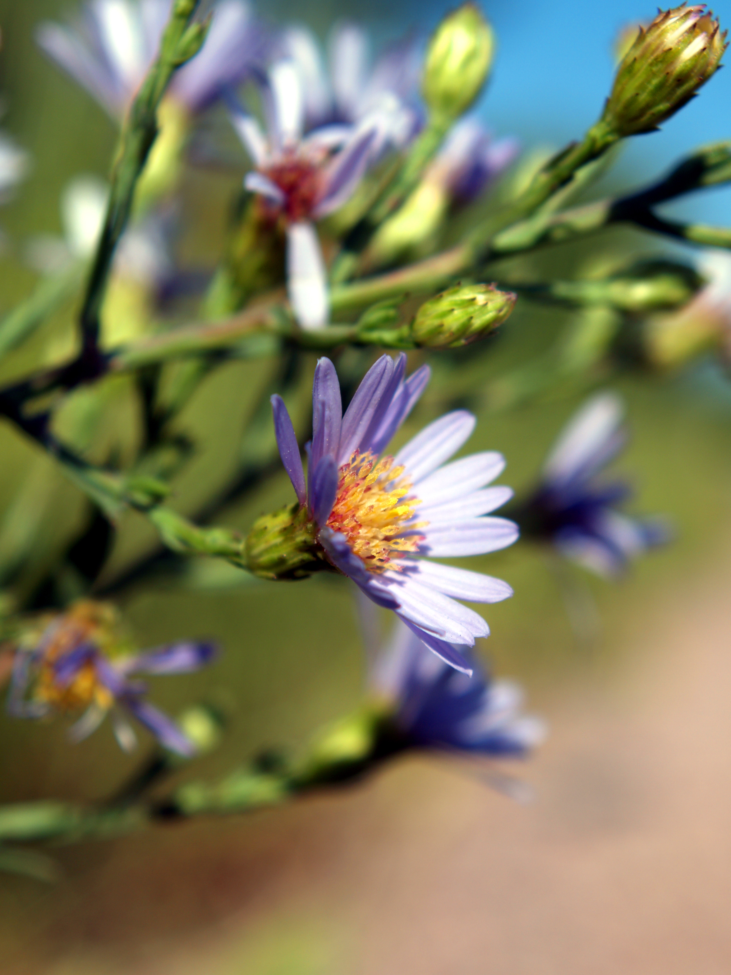 Dieteria canescens (syn. Machaeranthera canescens) at Wind Cave National Park, South Dakota, USA